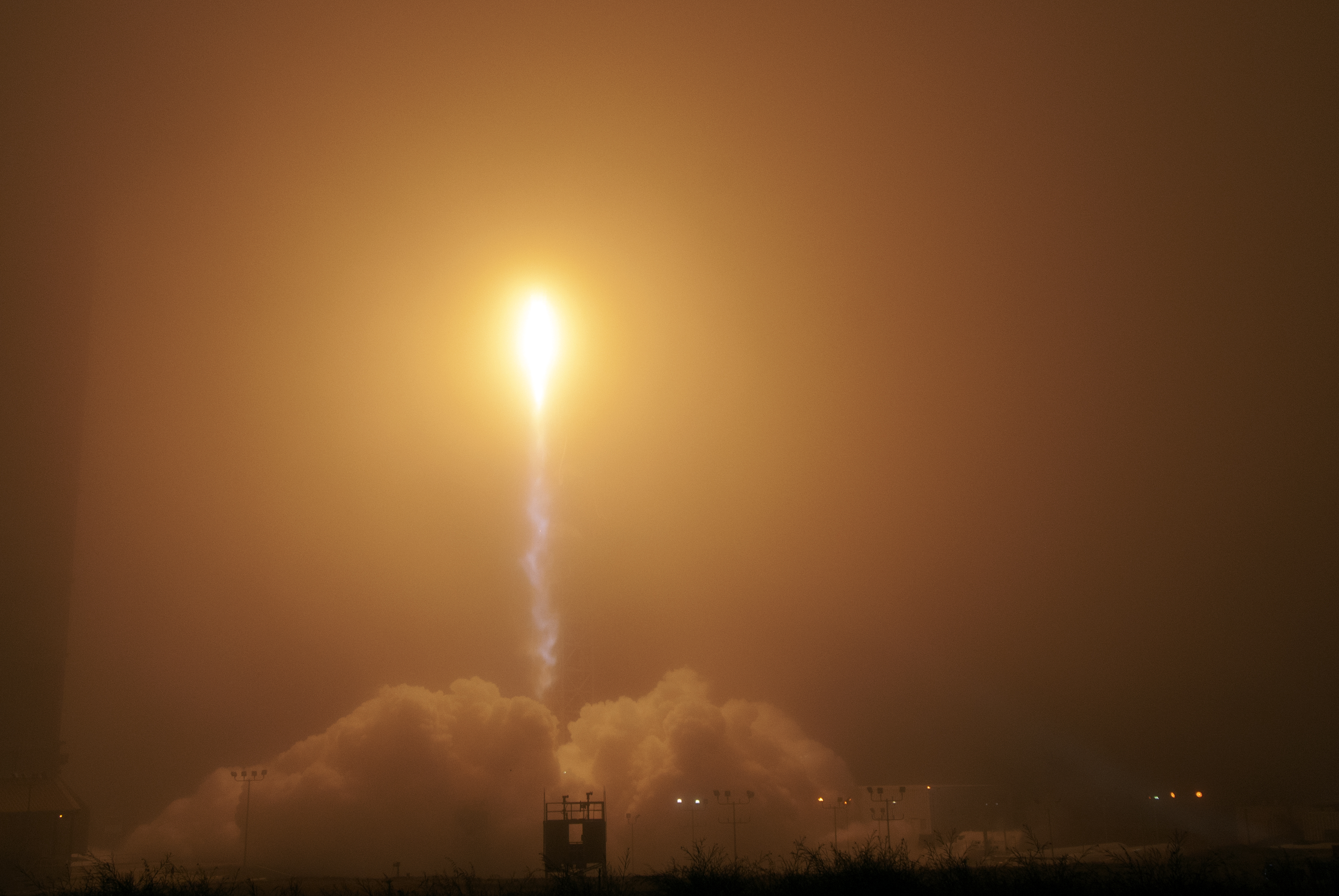 A United Launch Alliance Atlas V rocket lifts off from Space Launch Complex 3 at Vandenberg Air Force Base, California, carrying NASA's Interior Exploration using Seismic Investigations, Geodesy and Heat Transport, or InSight, Mars lander. Liftoff was at 4:05 a.m. PDT (7:05 a.m. EDT). The spacecraft will be the first mission to look deep beneath the Martian surface. It will study the planet's interior by measuring its heat output and listen for marsquakes. InSight will use the seismic waves generated by marsquakes to develop a map of the planet’s deep interior. The resulting insight into Mars’ formation will provide a better understanding of how other rocky planets, including Earth, were created.